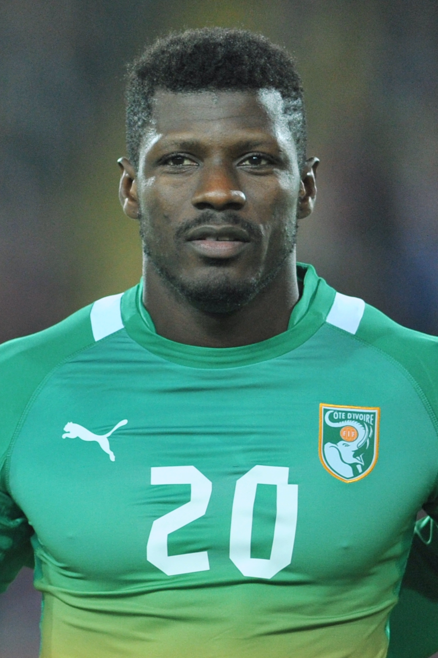 ÖFB freundschaftliches Länderspiel - Österreich vs Elfenbeinküste am 14. November 2012 The making of this work was supported by Wikimedia Austria. For other files made with the support of Wikimedia Austria, please see the category Supported by Wikimedia Österreich. Elfenbeinküste Nr. 20: Igor Lolo